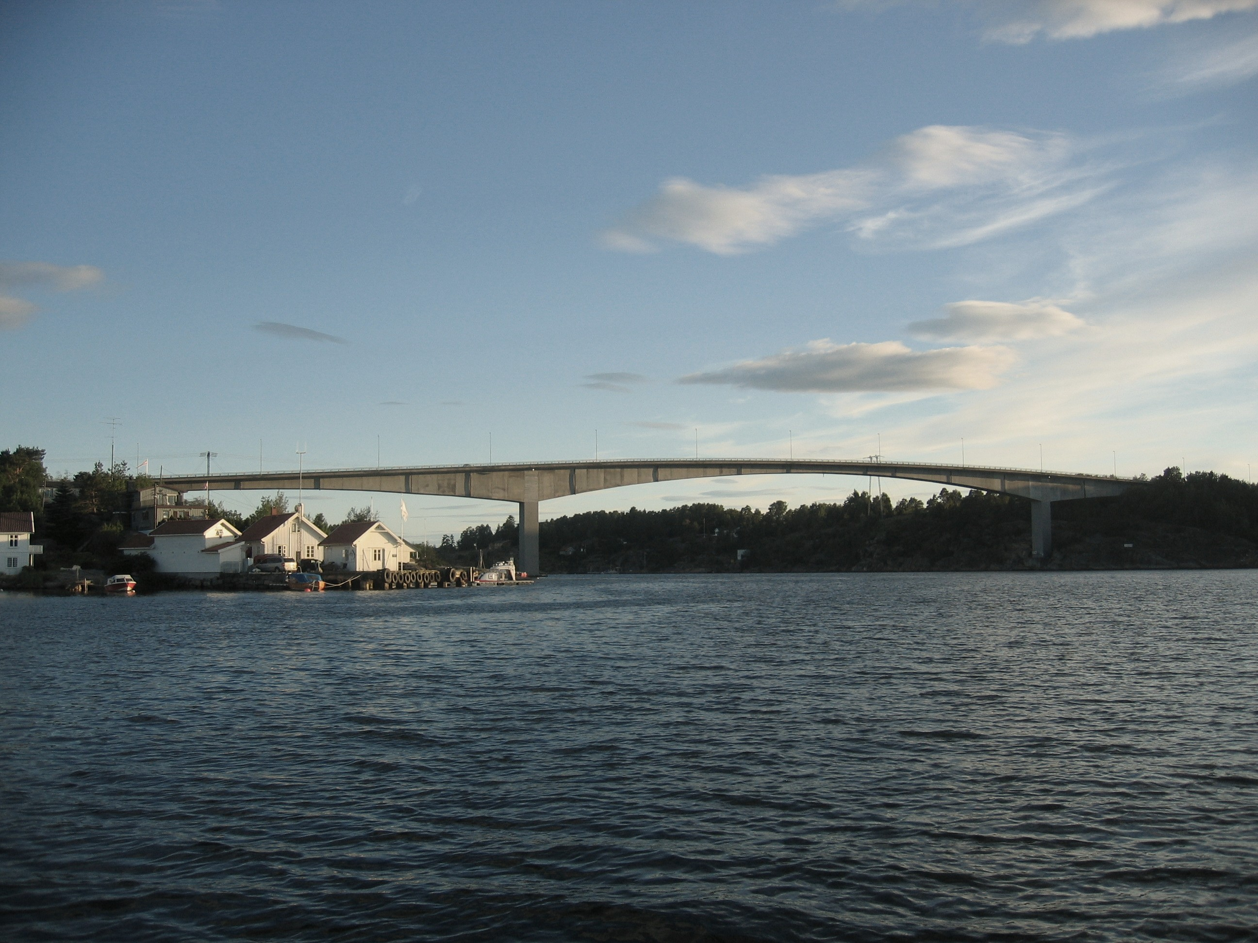 Bridge of Vrengen, Tjøme, Norway.